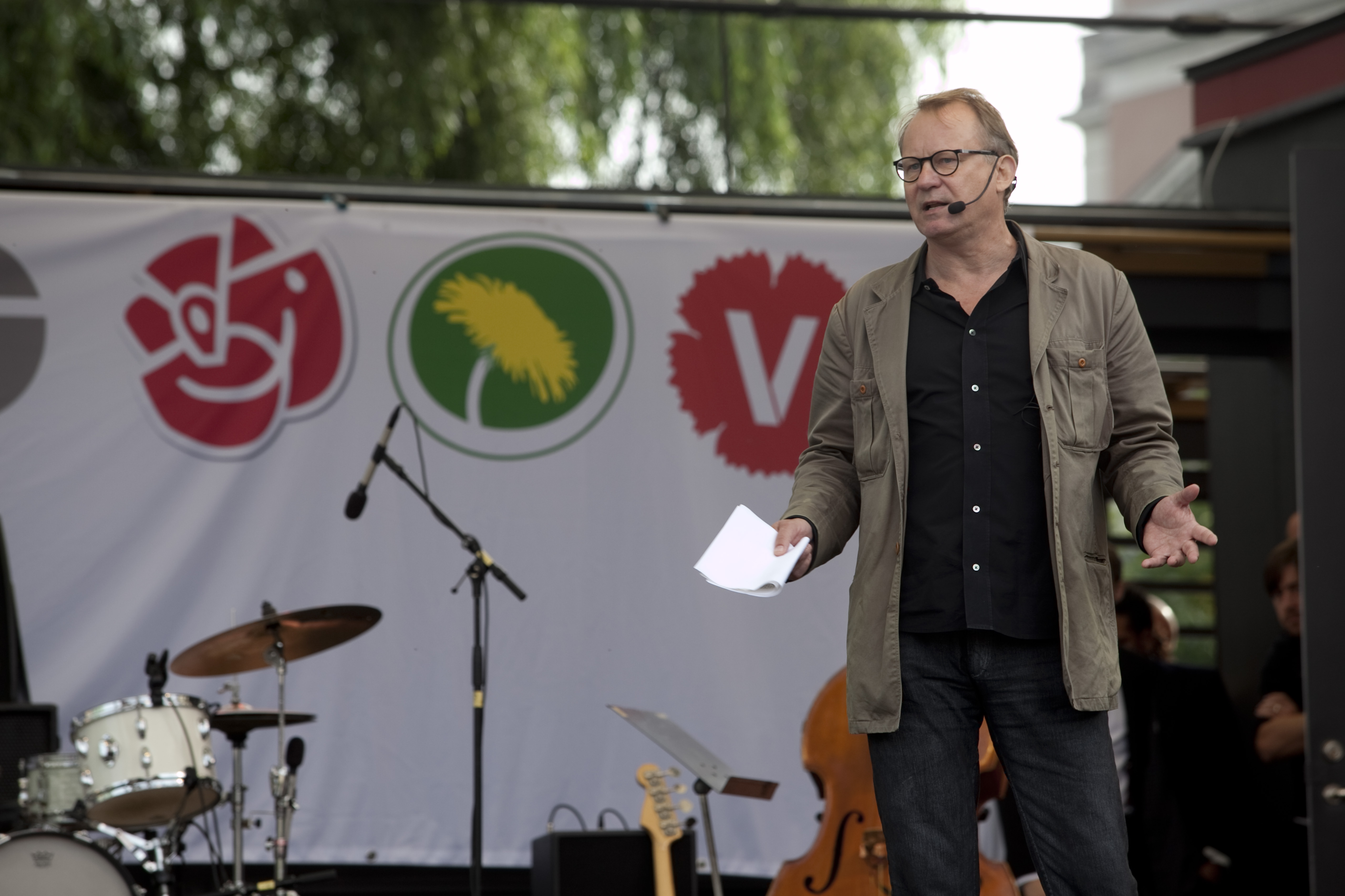 Actor Stellan Skarsgård spoke at Rödgröna dagen at Kungsträdgården, Stockholm, 100912